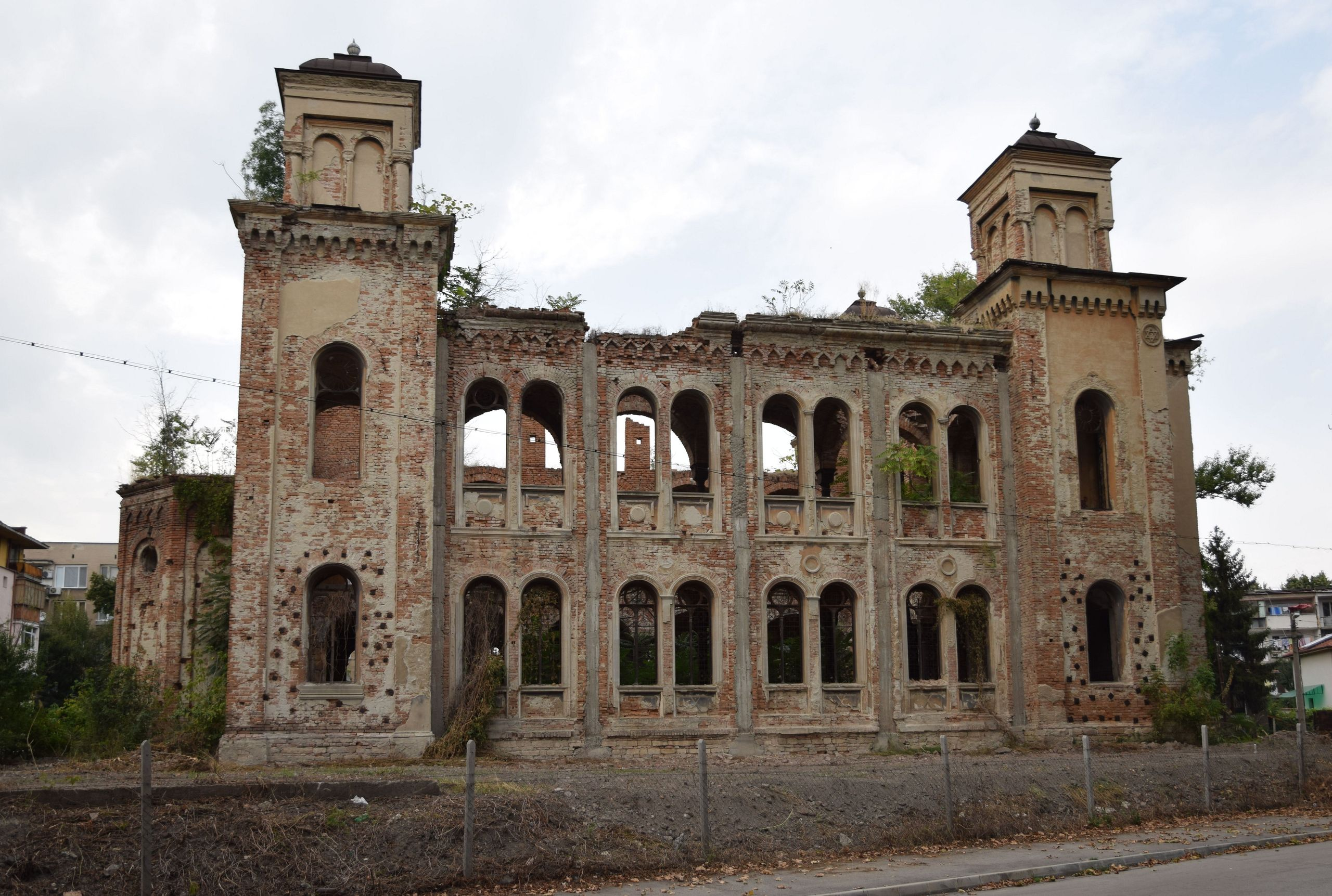 Vidin synagogue